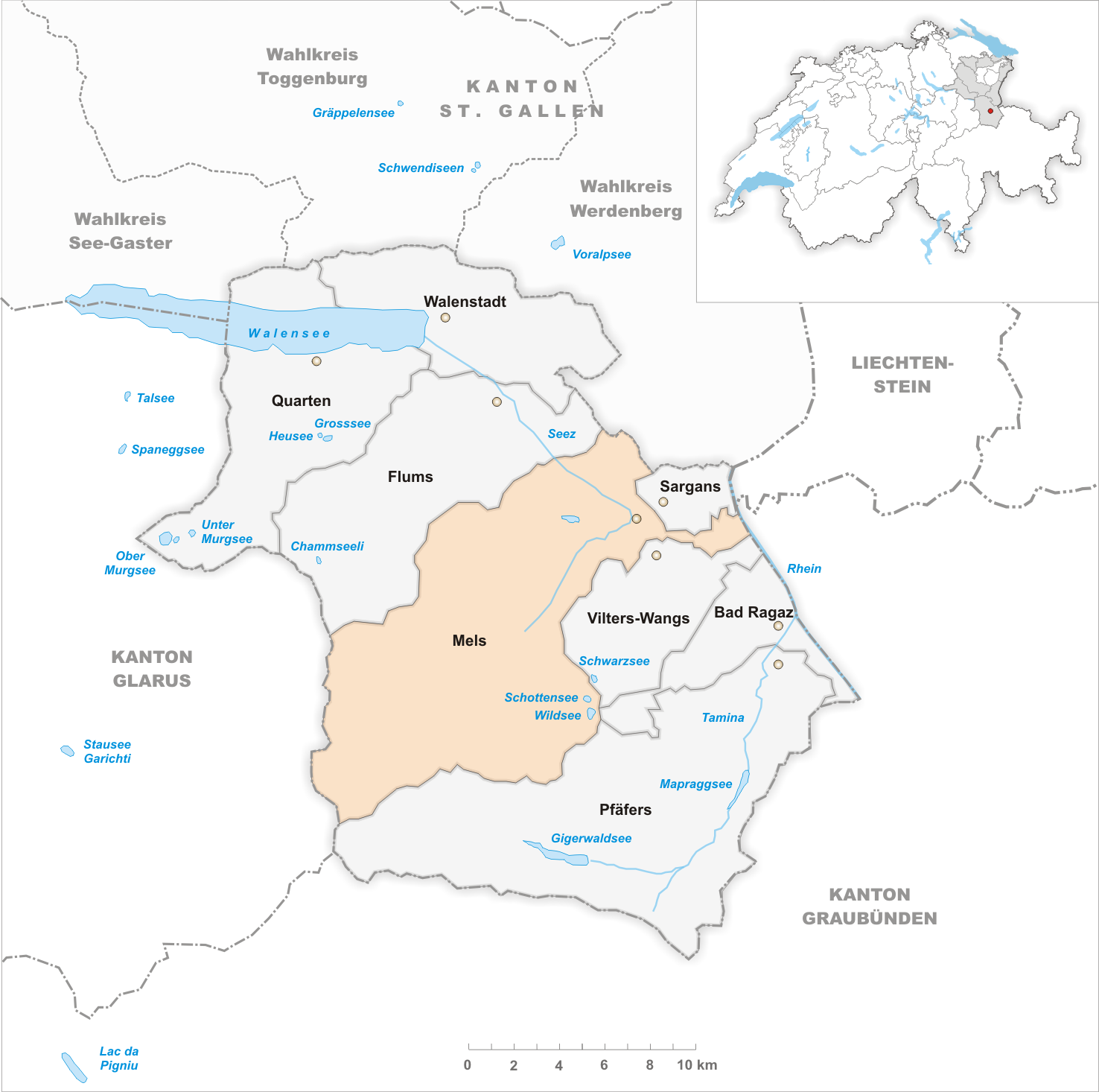 Municipality Mels